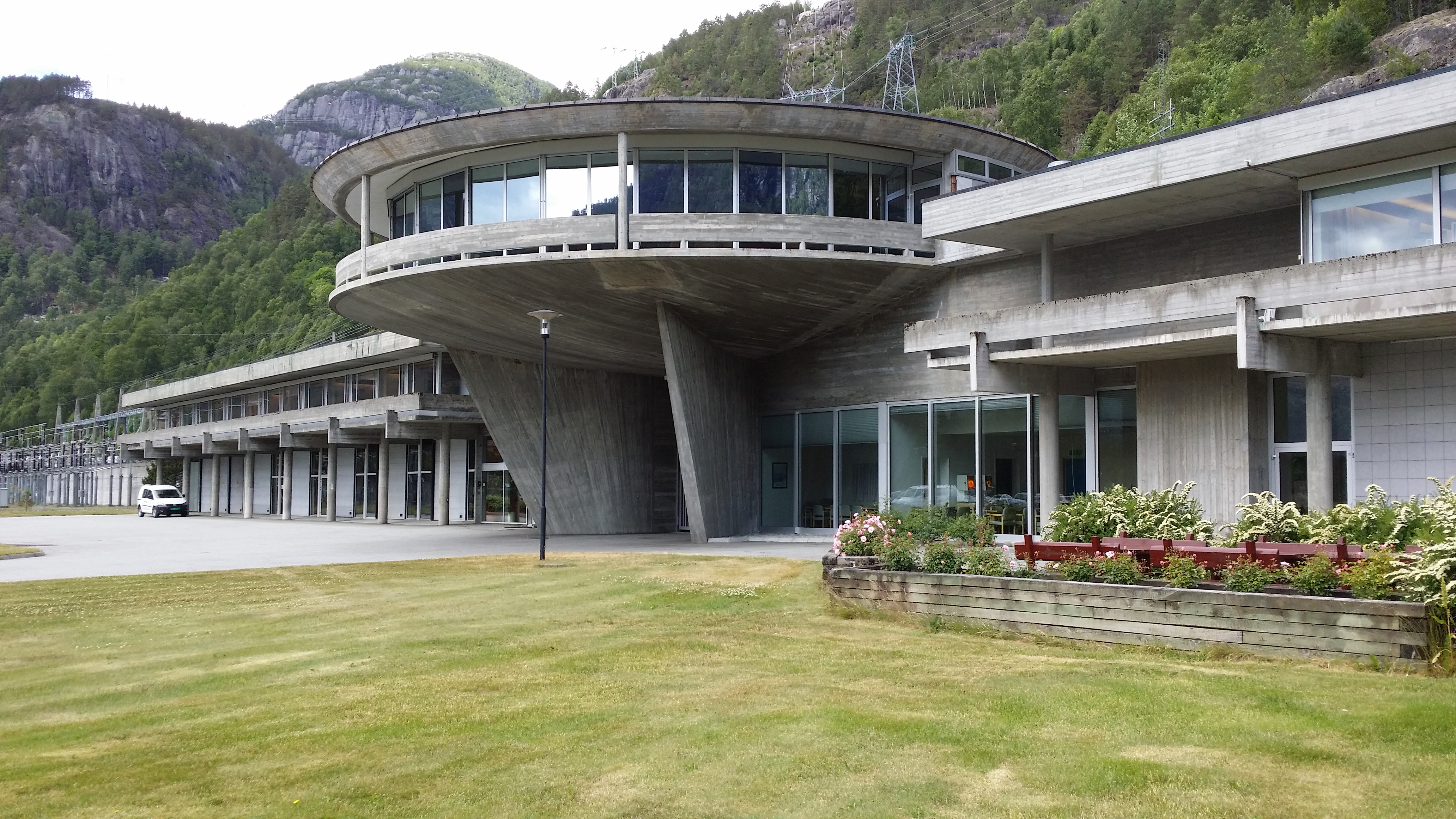 Suldal I & II Power Station, by architect Geir Grung (1965), Hydro Energi , Nesflaten, Norway